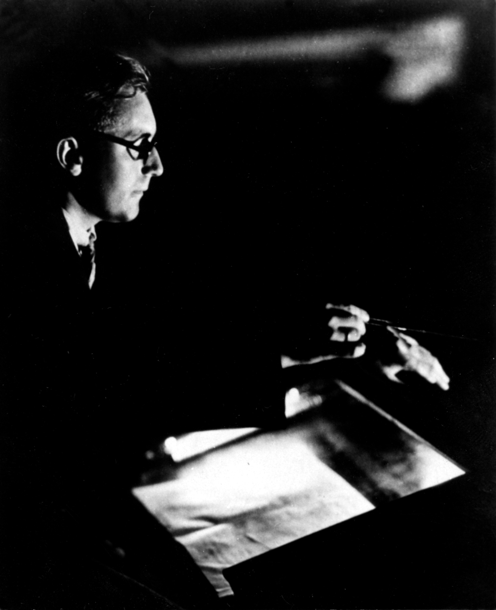 Erich Peter dirigiert in Beuthen (um 1930)